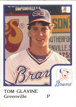 A baseball card of Tom Glavine from the 1986 ProCards Greenville Braves set.